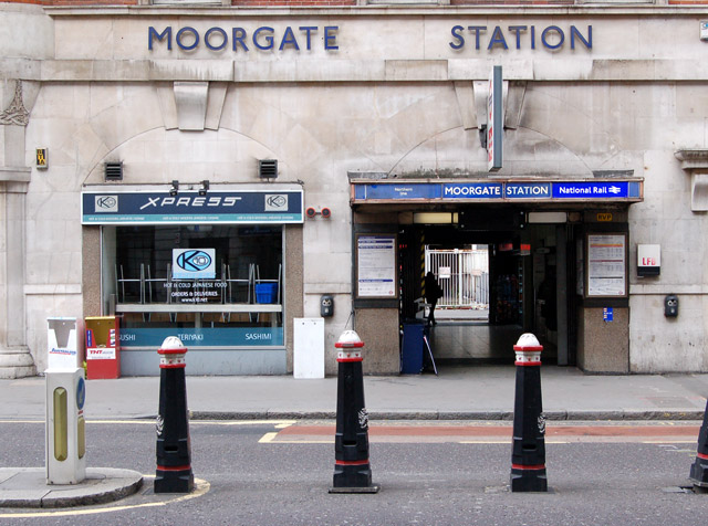 Entrance to underground station, west side of Moorgate, London